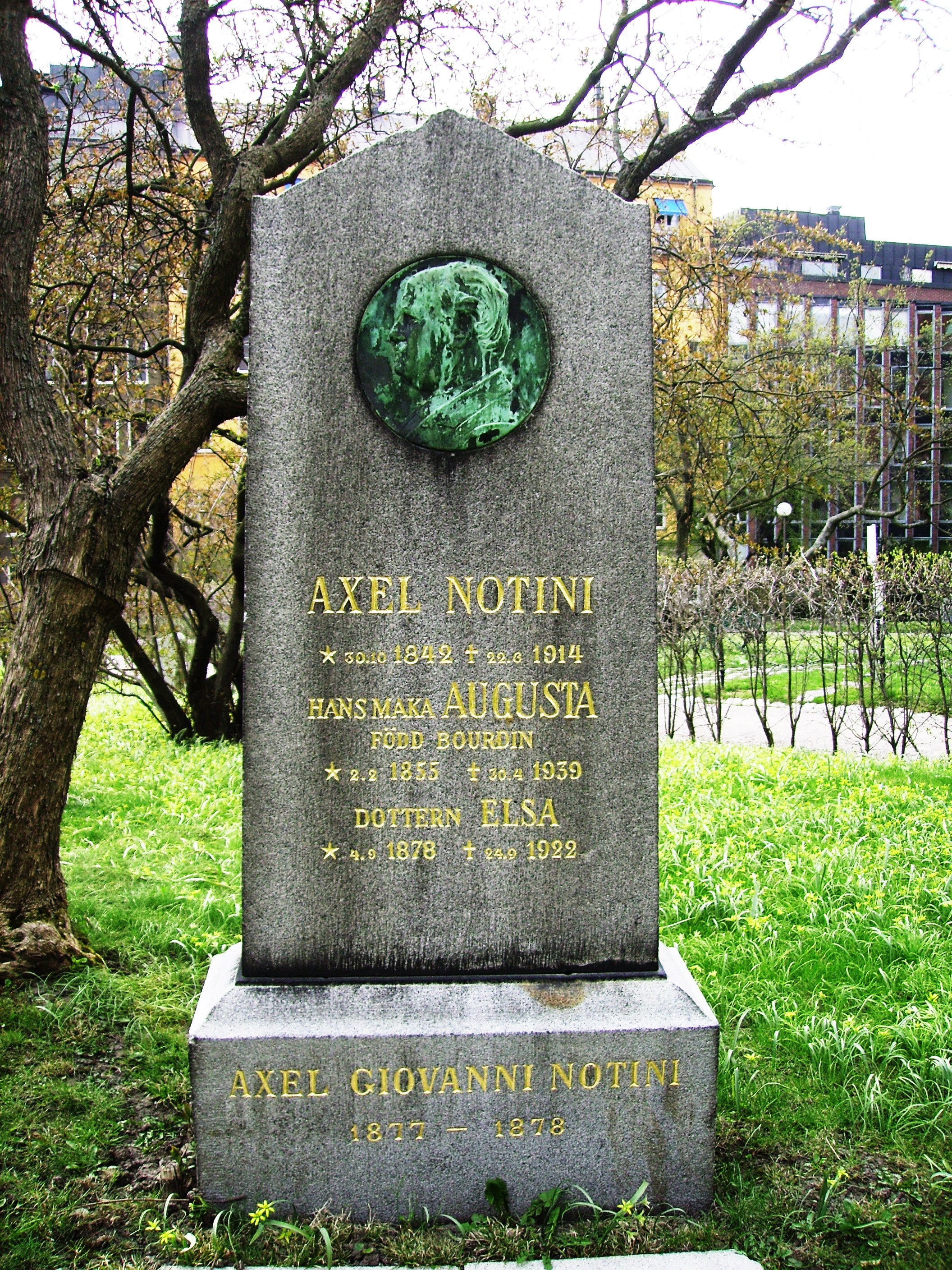 Picture of Axel Notinis grave at Johannes churchyard